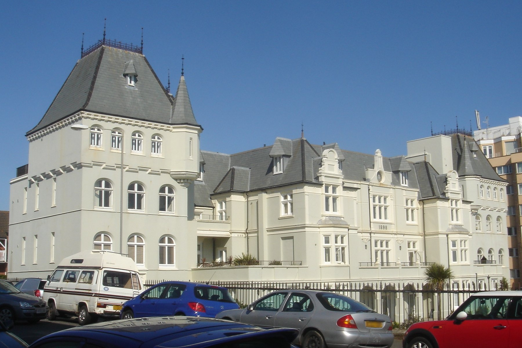 Former French Convalescent Home, De Courcel Road, Brighton, City of Brighton and Hove, England. A convalescent home built on behalf of the French Government for patients from the French Hospital in London. Built in 1898; restored in 2000 as a residential development ("The French Apartments") after its closure. Listed at Grade II by English Heritage (IoE Code 479657)